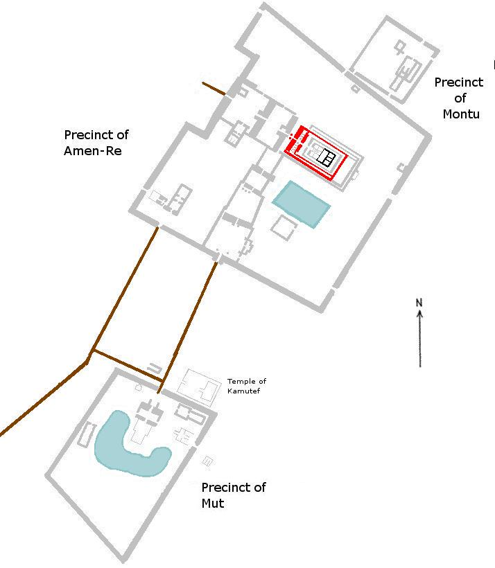 A modification of Image:Karnak Temple Map.jpg, which the creator released into the Public Domain. I also so release this work. This particular page is designed for use with Thutmose I, and shows modern Karnak in grey, approximately what we believe was there before him in black, and things he himself had built in red. The sacred lakes are in dull blue, as it is uncertain when they were all dug.